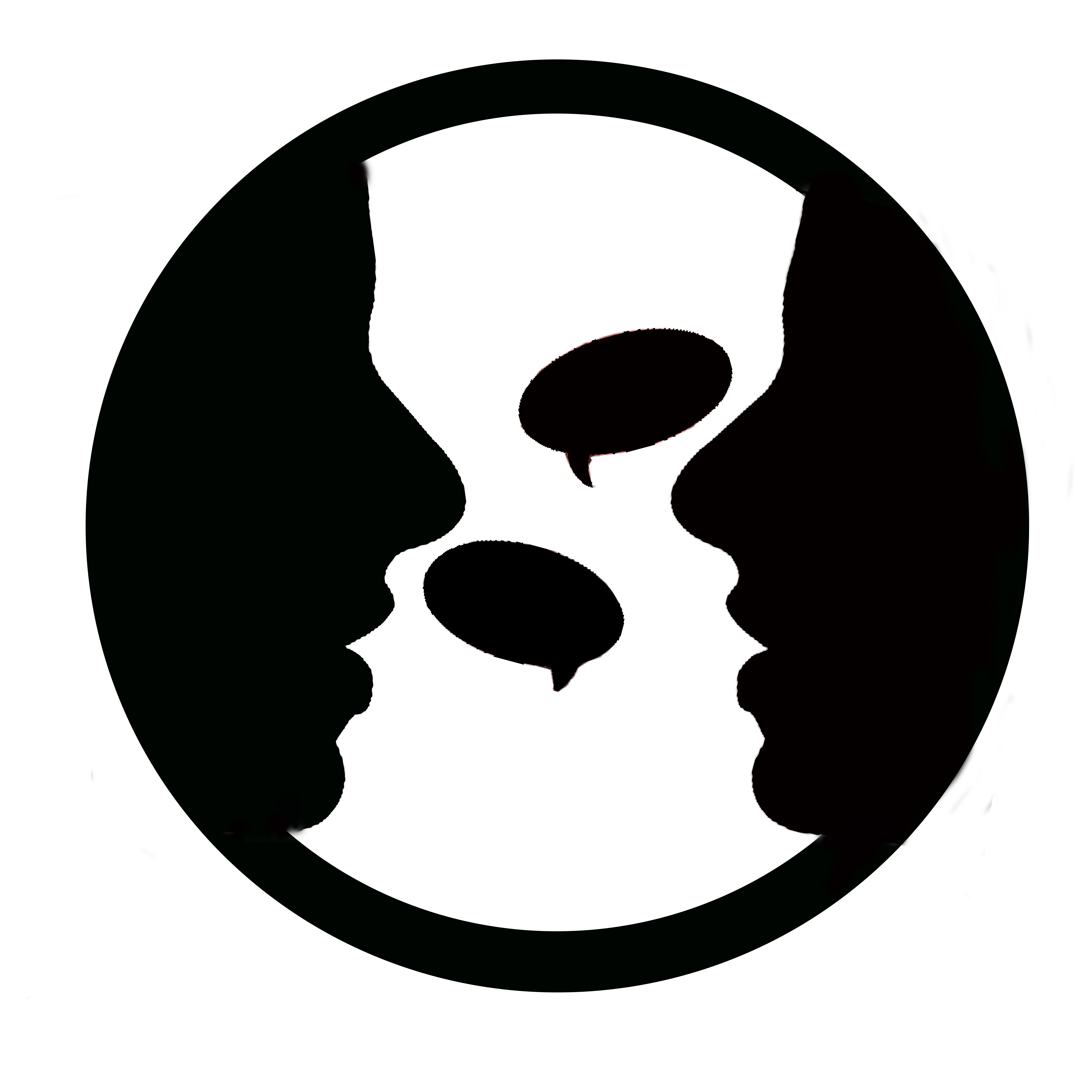 A black and white icon of two people talking to indicate discussion with peers or neighbors, possibly in educational settings.